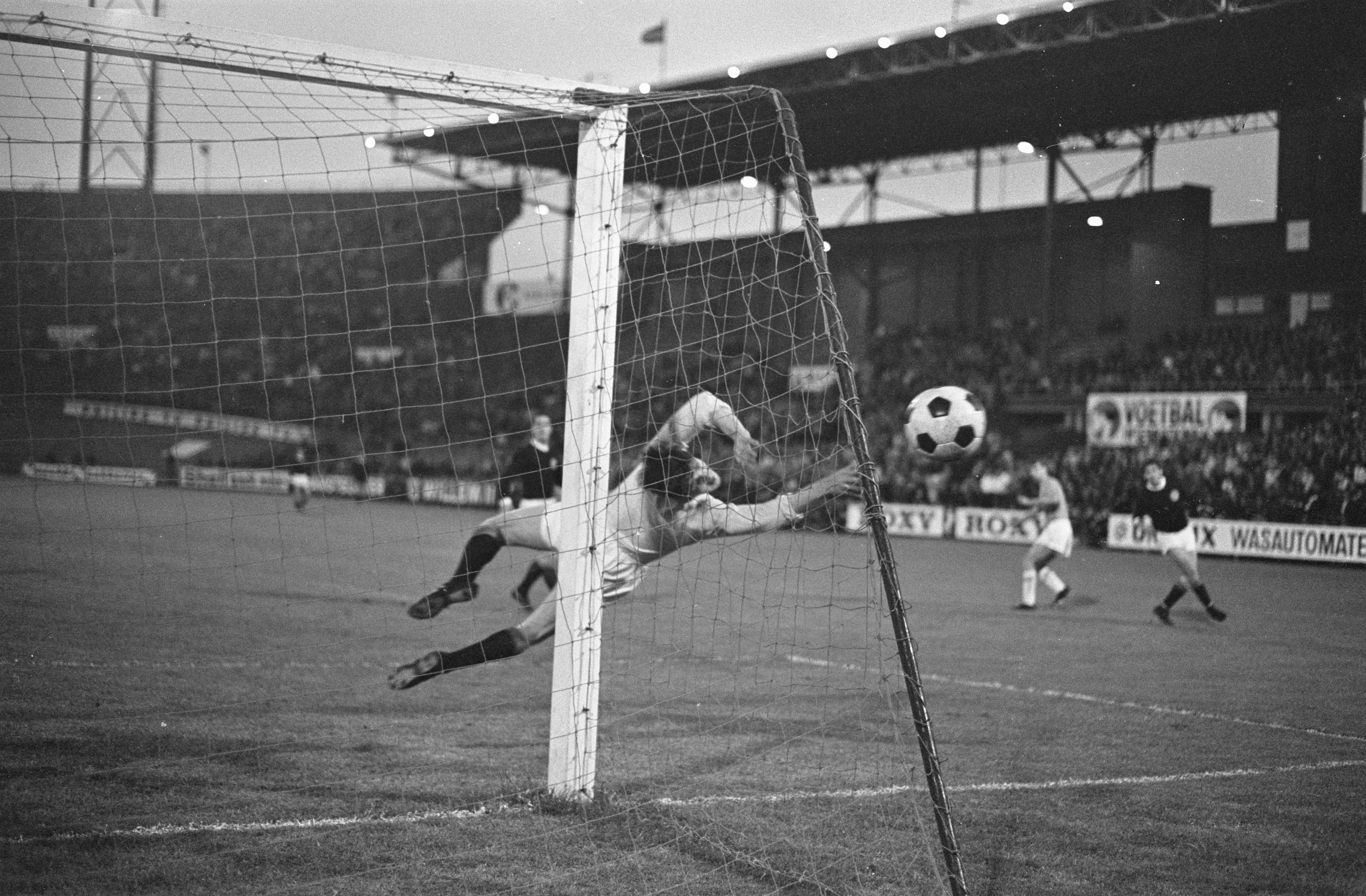 Bobby Clark dives to save a shot in an international football match between Scotland and Netherlands, 30 May 1968.